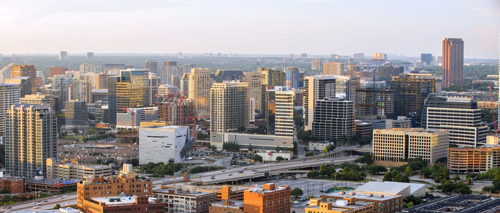 The Manhattanization of Downtown Dallas! The incredible density that is developing in the central core of Downtown Dallas is seen in this image of a partial view of the Uptown District ... with wall to wall towers! I say partial because there are yet several more significant towers not seen in this image that are just to the left and out of sight including The Katy, Bleu Ciel, Azure, Stoneleigh, Frost Tower, Harwood # 10, The Ascent, Victory Park Tower, The House, and Cinepolis that are all part of the densely situated towers of Uptown/Victory Park. And yet several more towers are currently under construction that are in this image's line of sight that will increase the density even further, including a 46 story tower under construction that will appear on the far right hand side of this image once constructed - AMLI Fountain Place. In fact the sleek angular 46 story AMLI Fountain Place will rise to the sky in front of the huge multi-level parking garage under construction on the right hand side of the image. And just to the left of where AMLI Fountain Place is now under construction, and fronting Woodall Rodgers Expressway, will rise the planned Perot Tower, which is shown in its last renderings as a supertall. Towers lining North Central Expressway can be seen in the background to the right and then a little further out in center image one can see the cluster of towers that form the Preston Center business district.